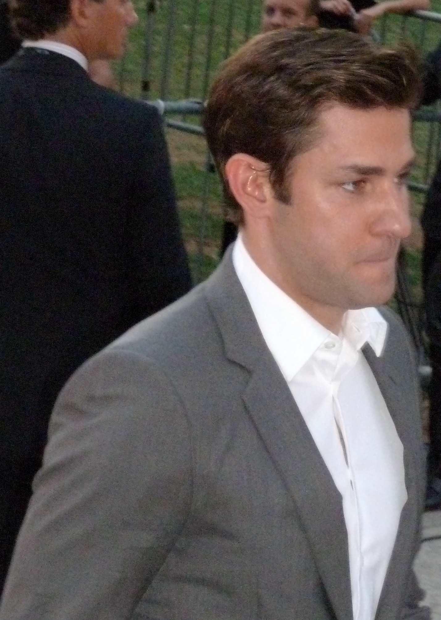 John Krasinski at the premiere of Looper, Toronto Film Festival 2012